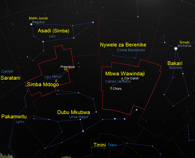 Constellation Leo Minor / Canes Venatici as seen from Tanzania, Swahili labelled Kiswahili: Kundinyota Simba Mdogo na Mbwa Wavindaji ( Leo Minor / Canes Venatici) jinsi zinavyoonekana kutoka Tanzania, majina kwa Kiswahili